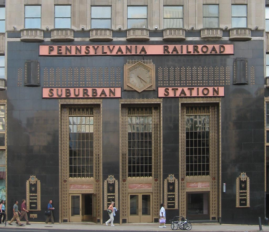 East facade of Suburban Station in Philadelphia.